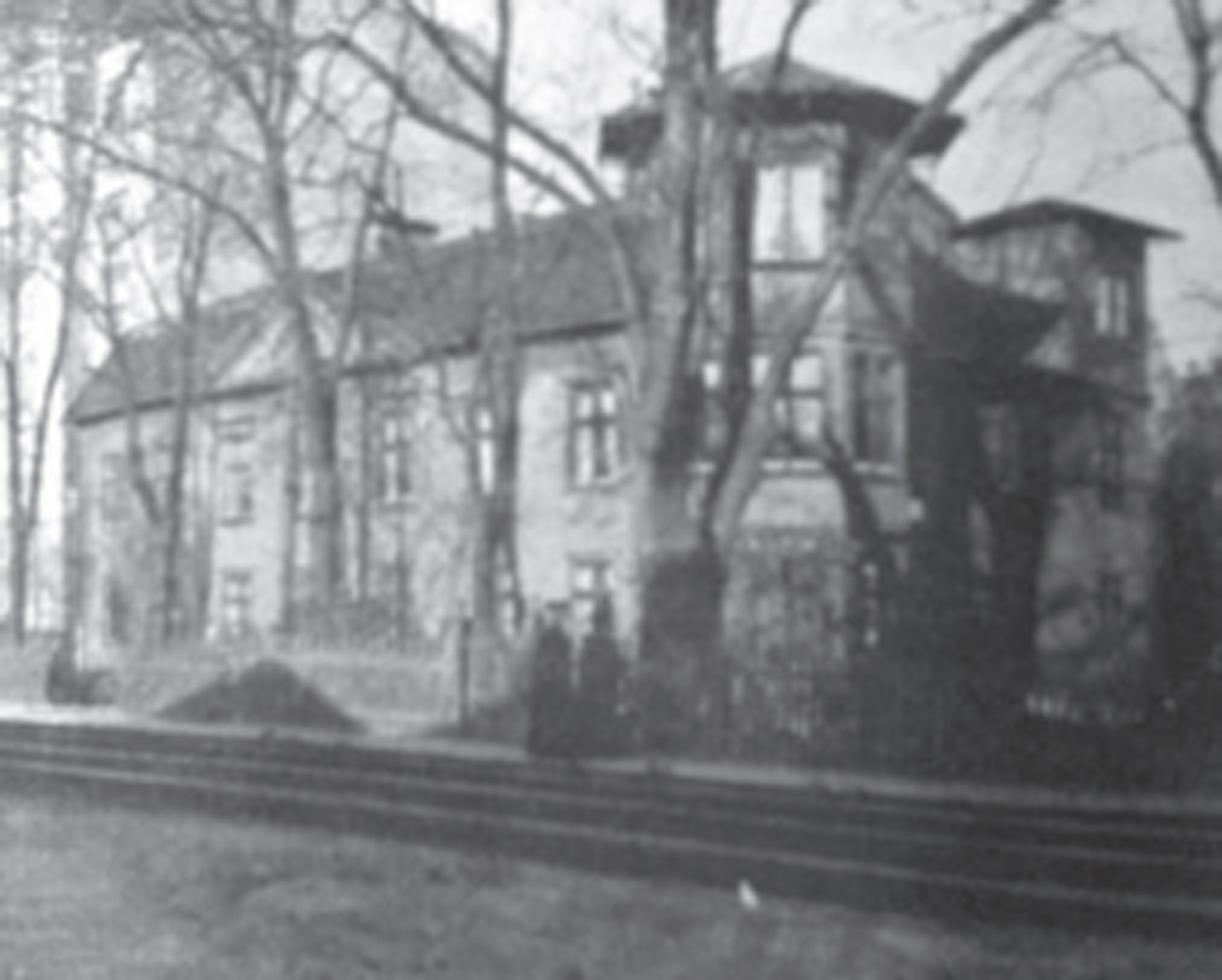 Rosengård, a mansion in Gothenburg, Sweden